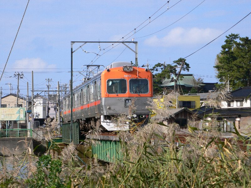 Ono Brige, Asano-gawa line, Hokuriku Railroad, Ishikawa, Japan.